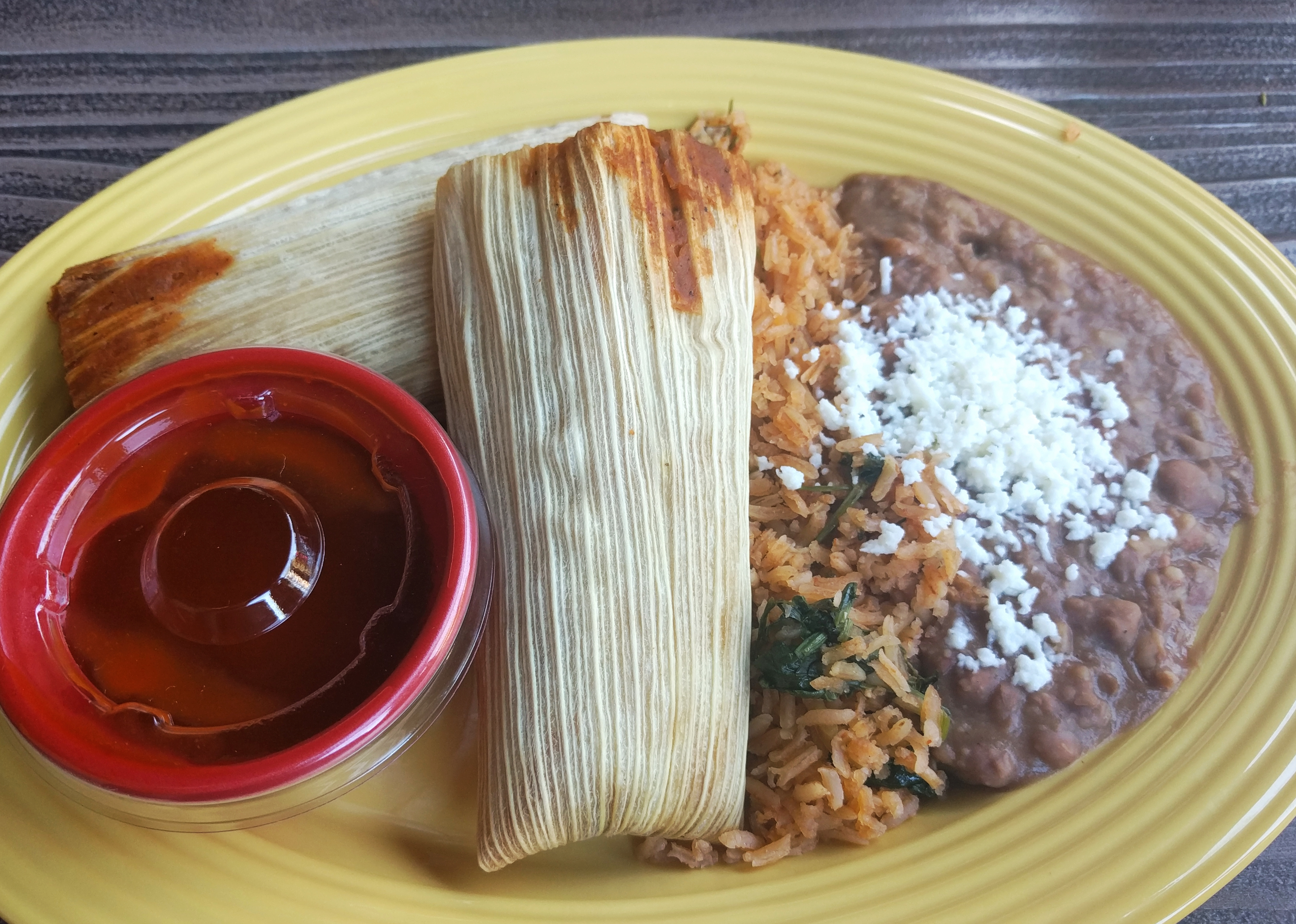 Tamale Plate at Rancho del Zocalos Restaurante